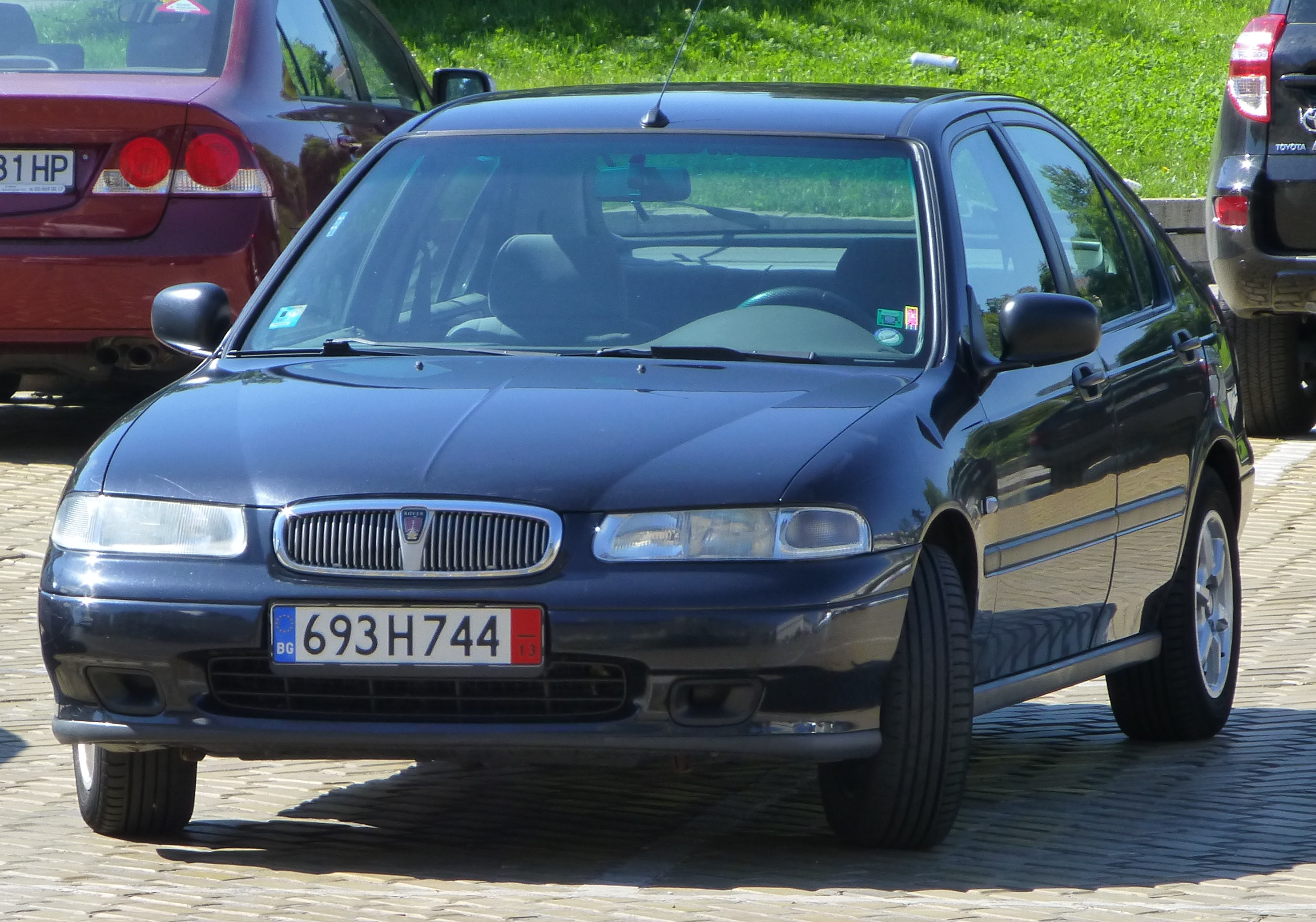 Rover 400 with export license plate from Bulgaria (Sofia 2013)